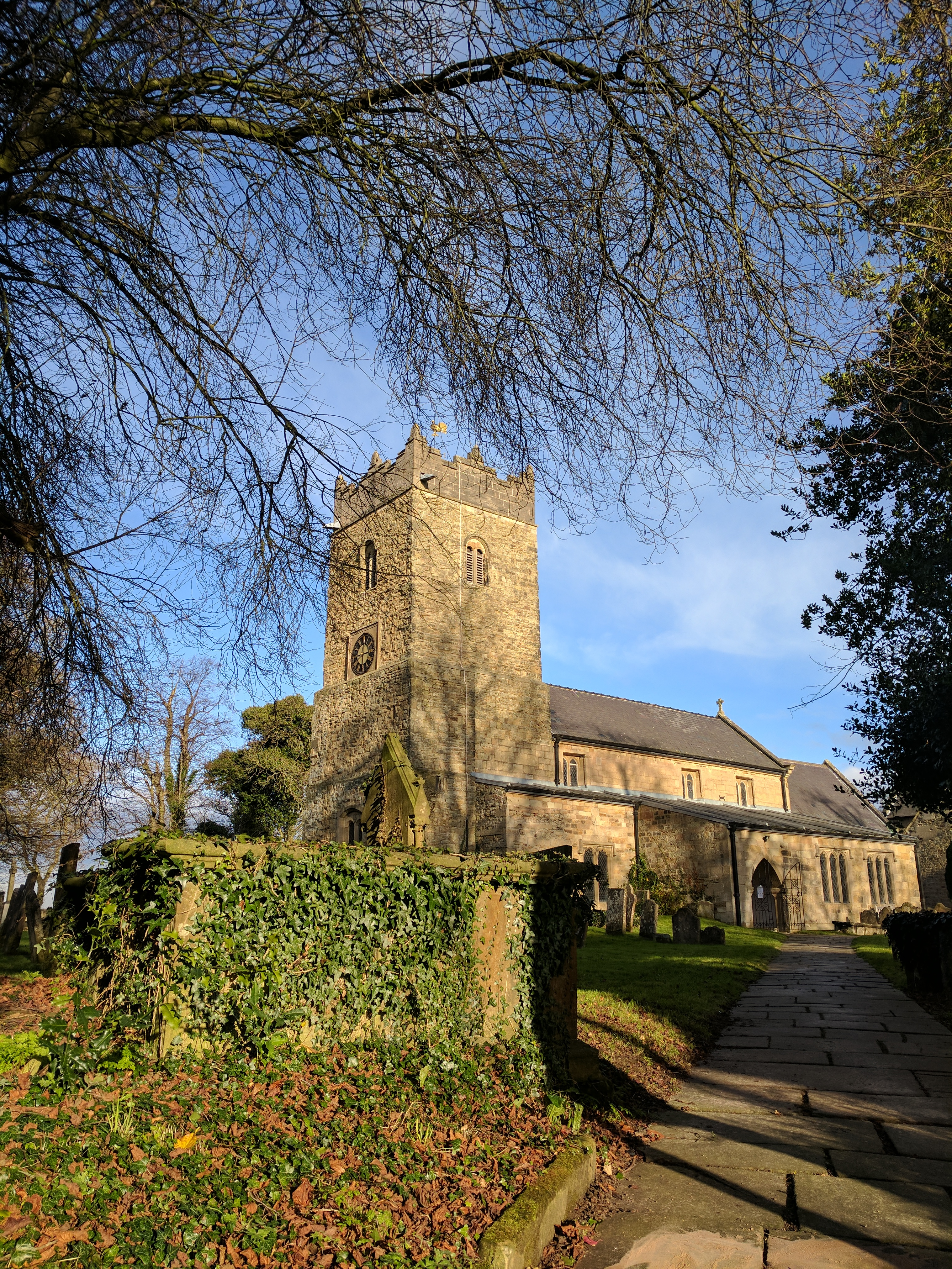 St. Katherine's Church, Buttery Lane, Teversal, Mansfield Wikidata has entry Q7589424 with data related to this item.